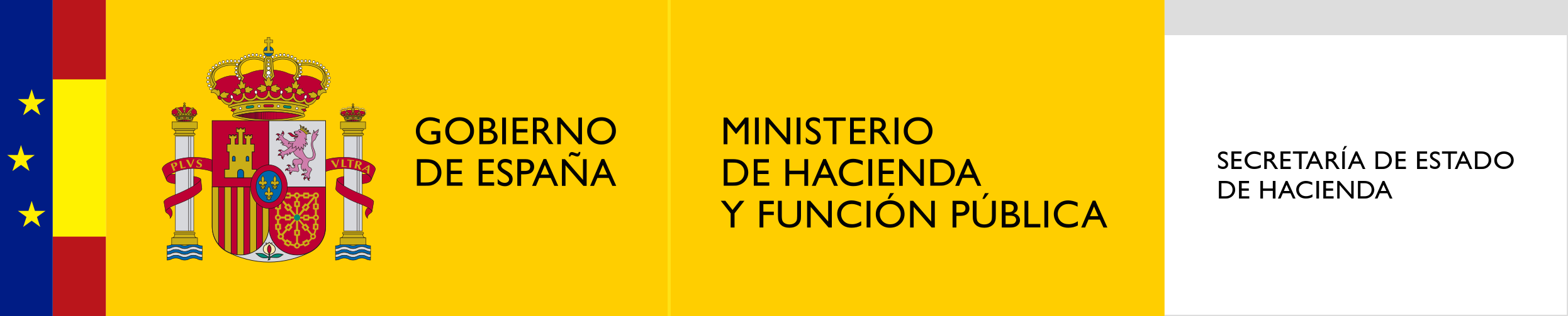 Logo of the Secretariat of State for the Treasury of the Government of Spain.